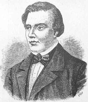 Urbain Le Verrier